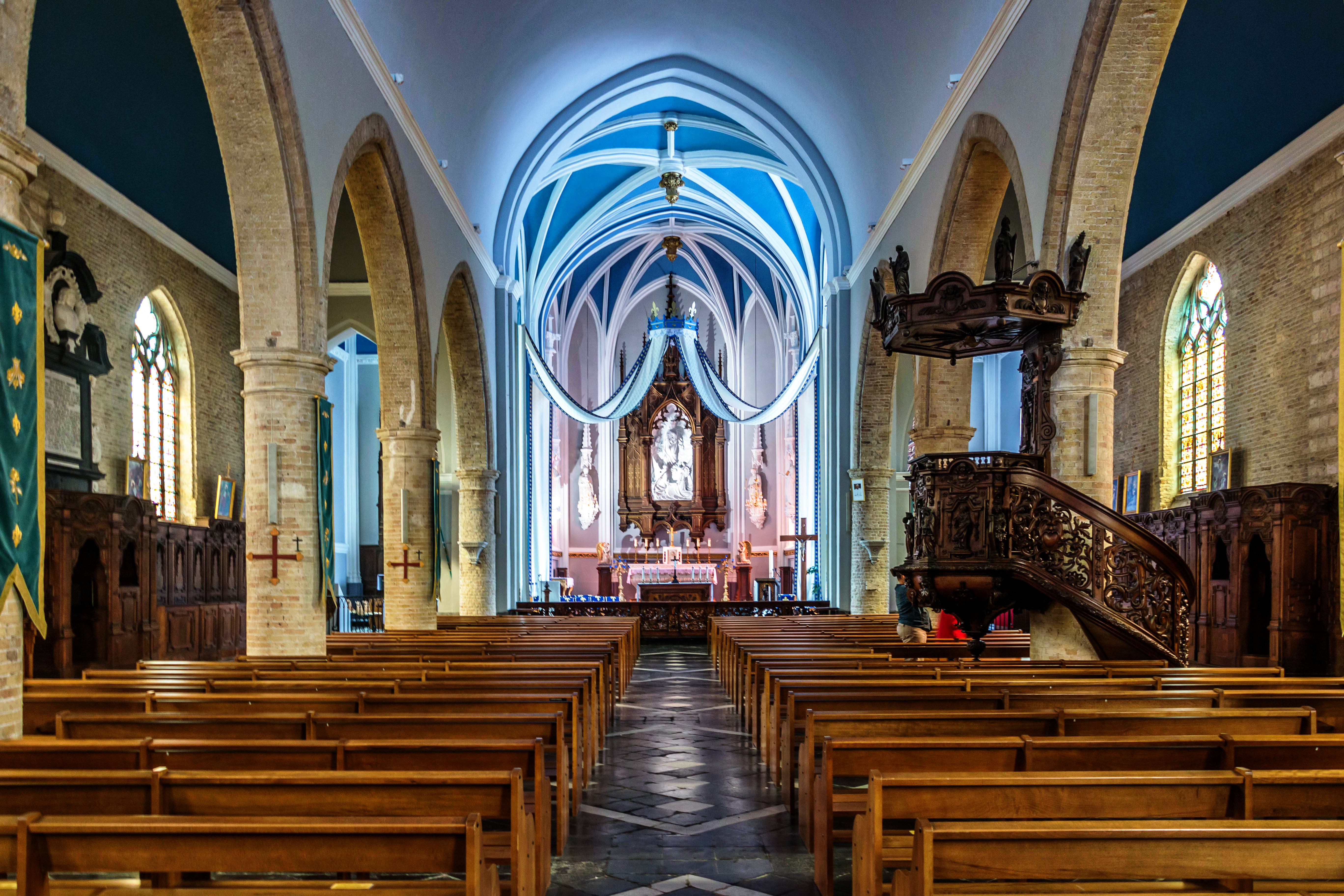 Saint Willibrord Church of gravelines, France